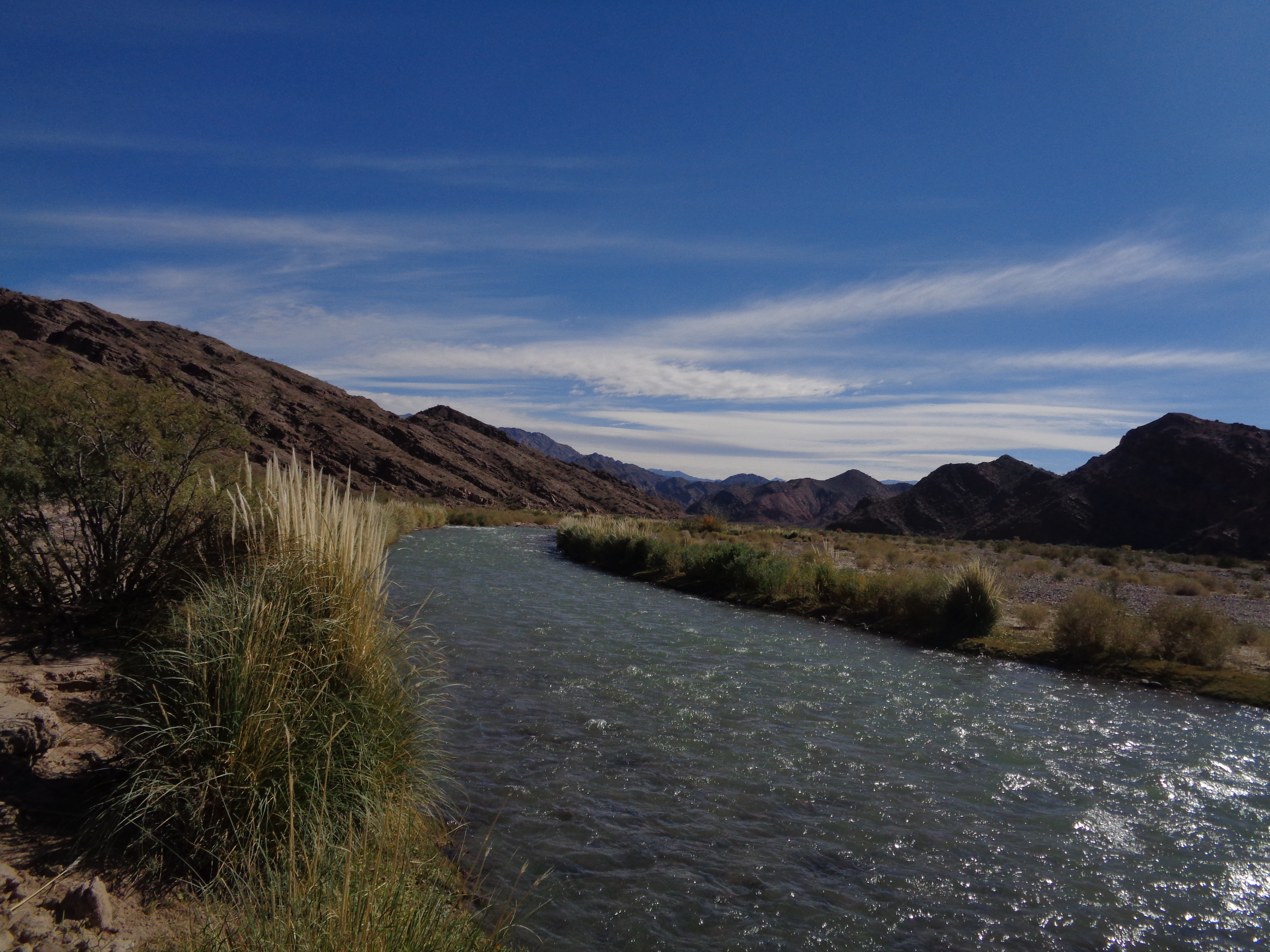 Castaño River